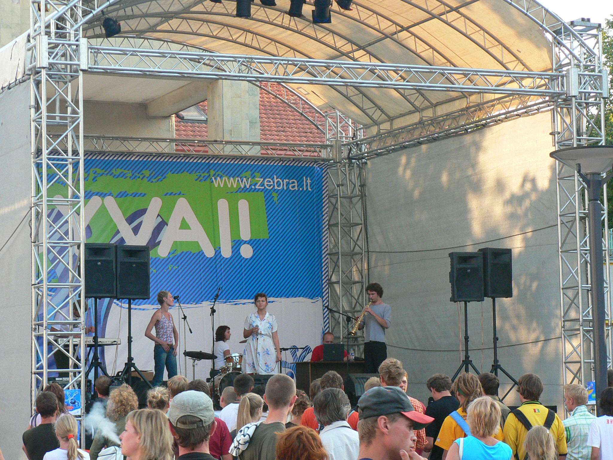 Lithuanian group "Pieno lazeriai" at concert in Palanga, in 2006